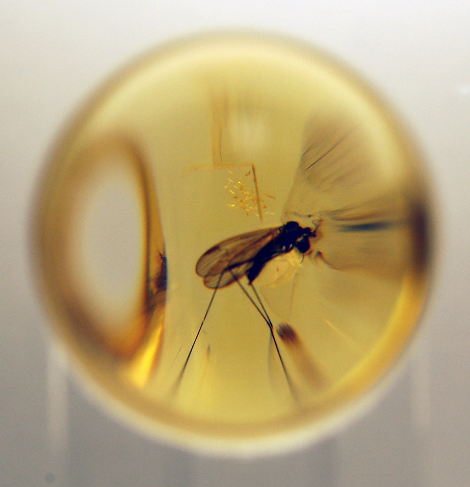 Gnat (Scaridae) in amber, Senckenberg Museum, Frankfurt am Main